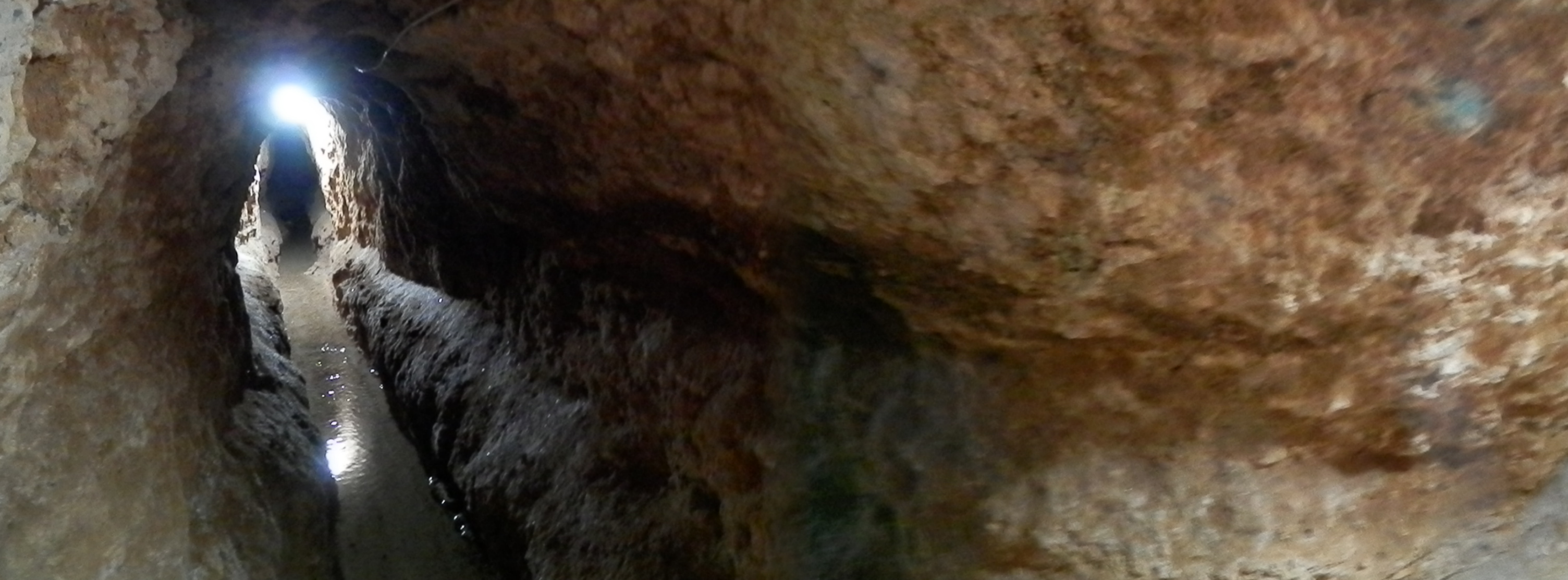 Inside a Qanat in Iran